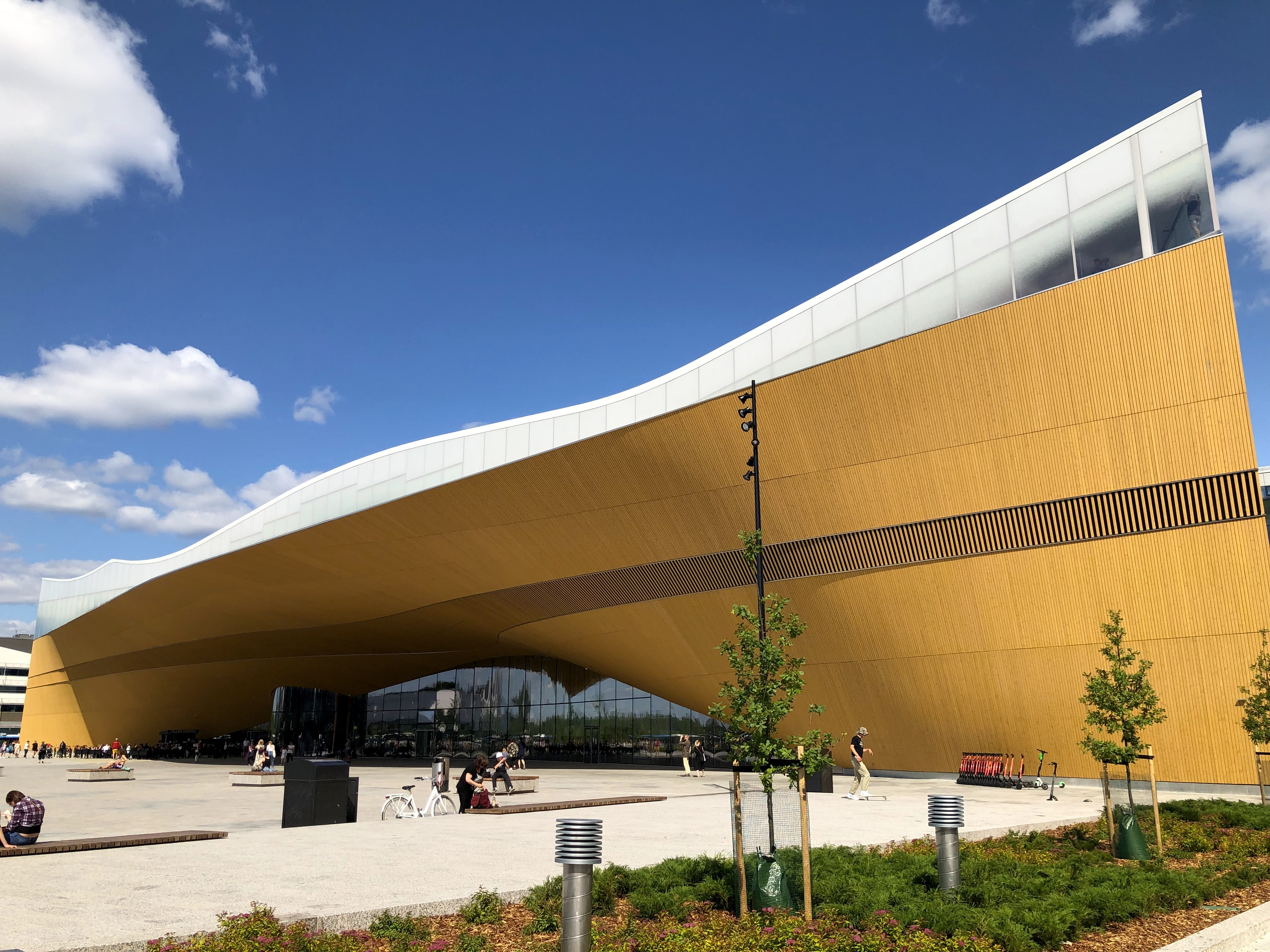 Helsinki Central Library Oodi in July 2019.